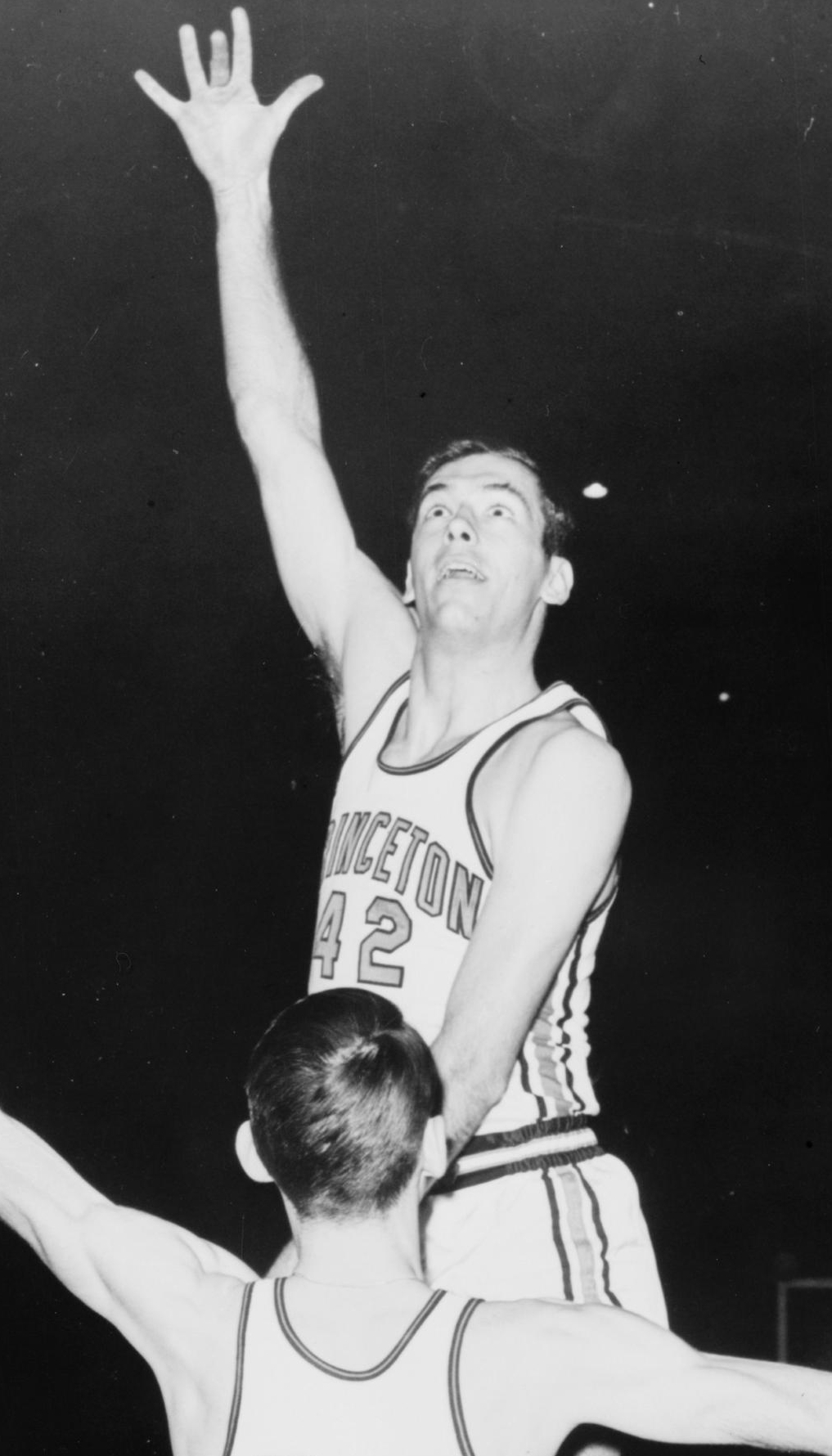 Bill Bradley playing basketball